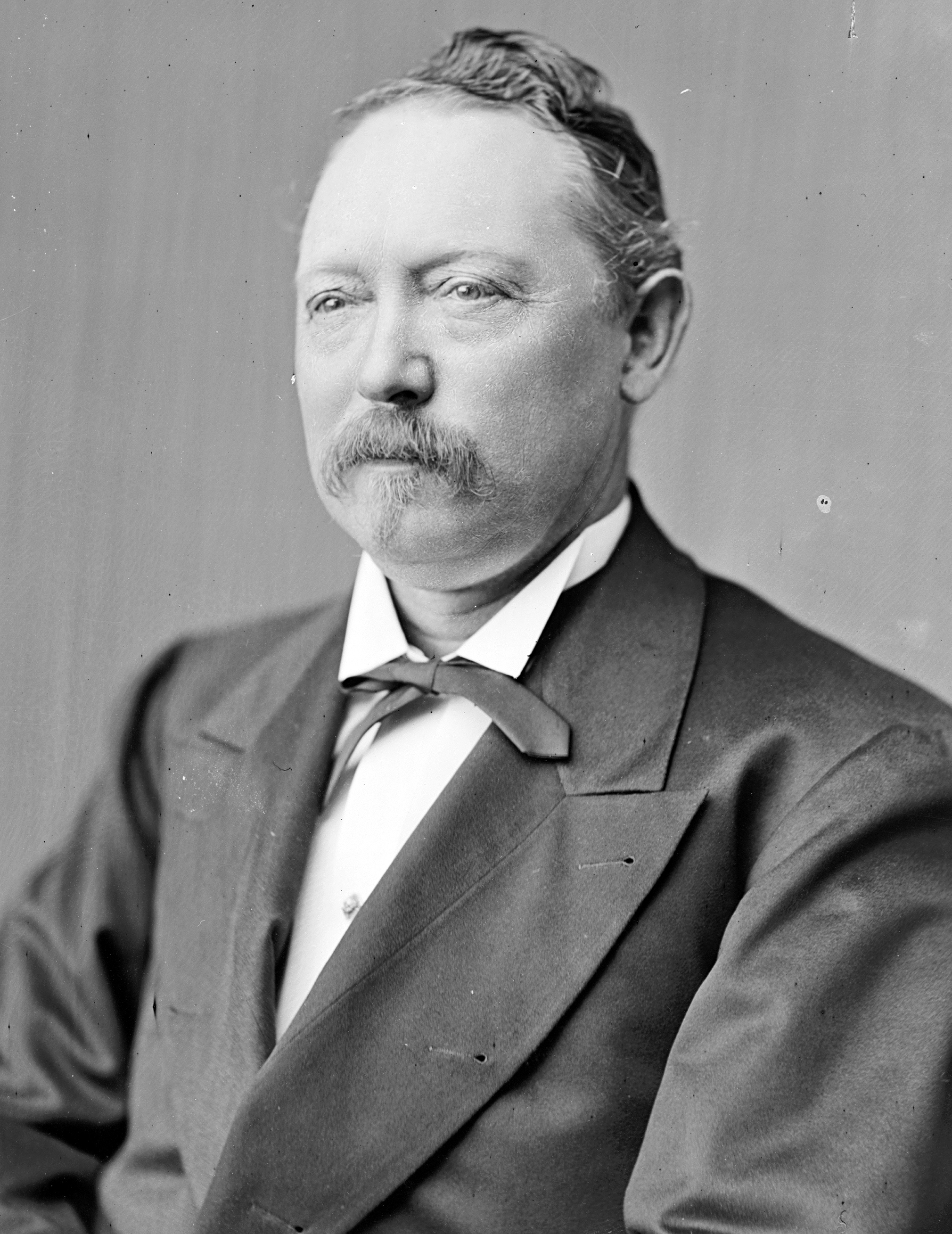 William Henry Stone, US Representative from Missouri